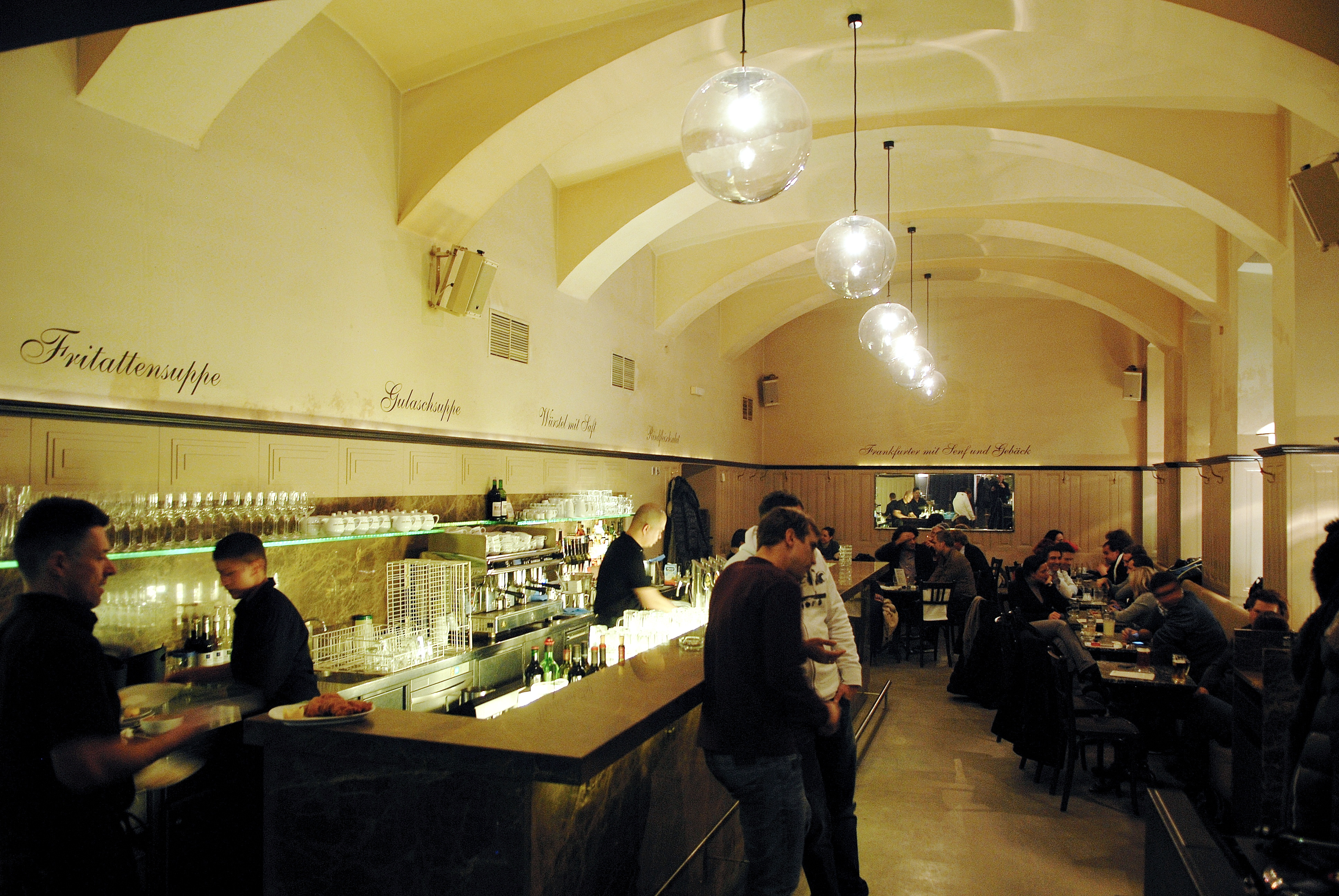 Cafe Drechsler, Vienna